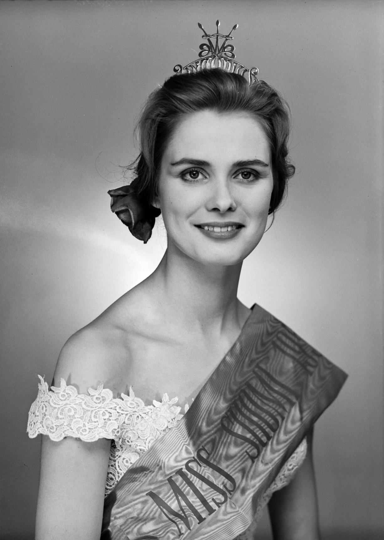 Marita Lindahl in 1957.